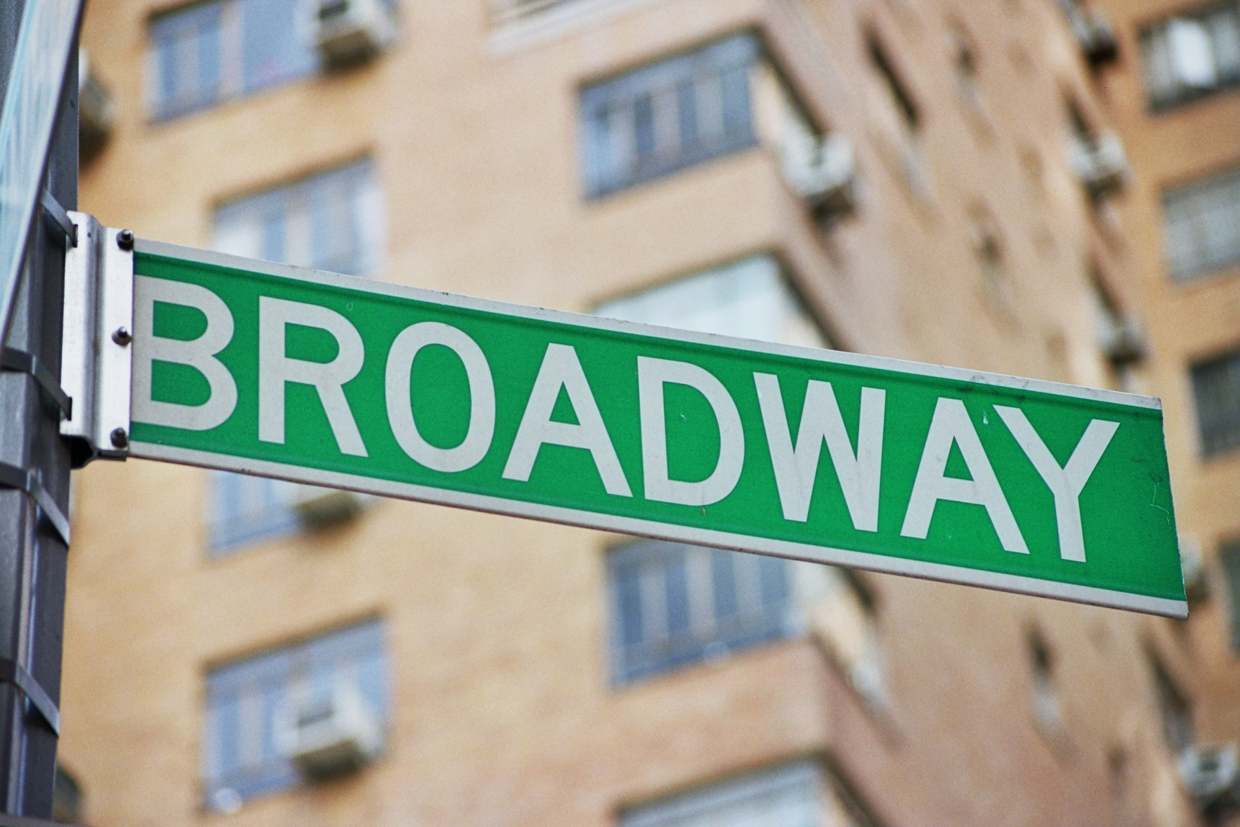 Broadway street sign